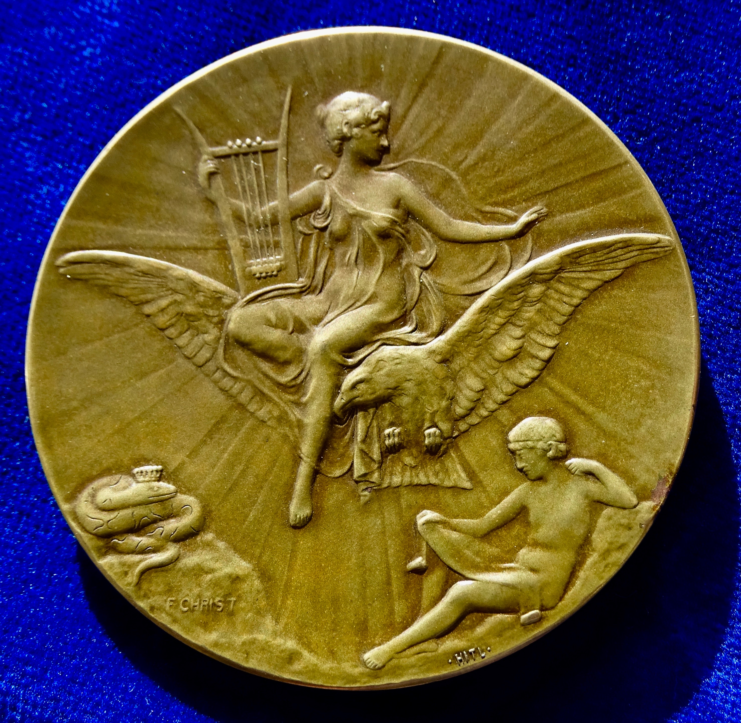 Art Nouveau. 100th Death Anniversary Medal of Poet & Physician Schiller ND 1905. Bonze medallion d. = 60 mm. Schiller, Friedrich von, 1759 Marbach - 1805 Weimar, Thuringia, Germany. 2 lines l. of his portrait l.: "Friedrich Schiller."/ Radiant muse holding a lyre, and sitting on a flying eagle. Down at l. on a rock a crowned snake as a symbol for Schiller's medical profession. Down at r. reclined a nude Apollo, the god of poetry. Wurzbach -; Brettauer -. Artist: F. (Fritz) Christ, 1866 Bamberg - 1906 München. Condition: Nice VERY FINE+.